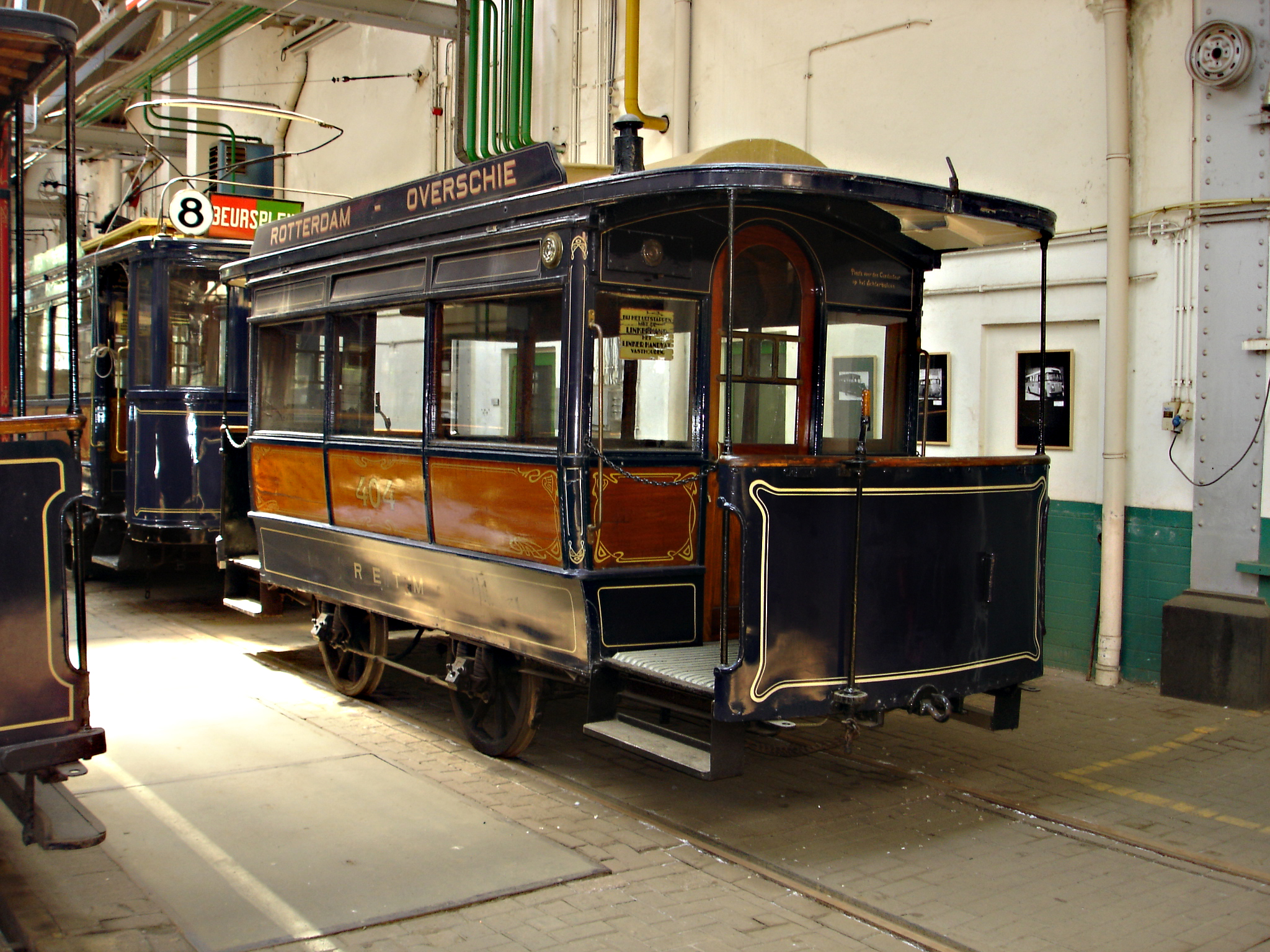 Trailer RETM 404 Trammuseum Rotterdam, originally horsetram AOM 64 in Amsterdam